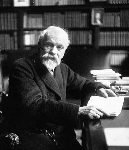 French critic and playwright Jules Lemaître (1853-1914) in his house in Tavers (Loiret).